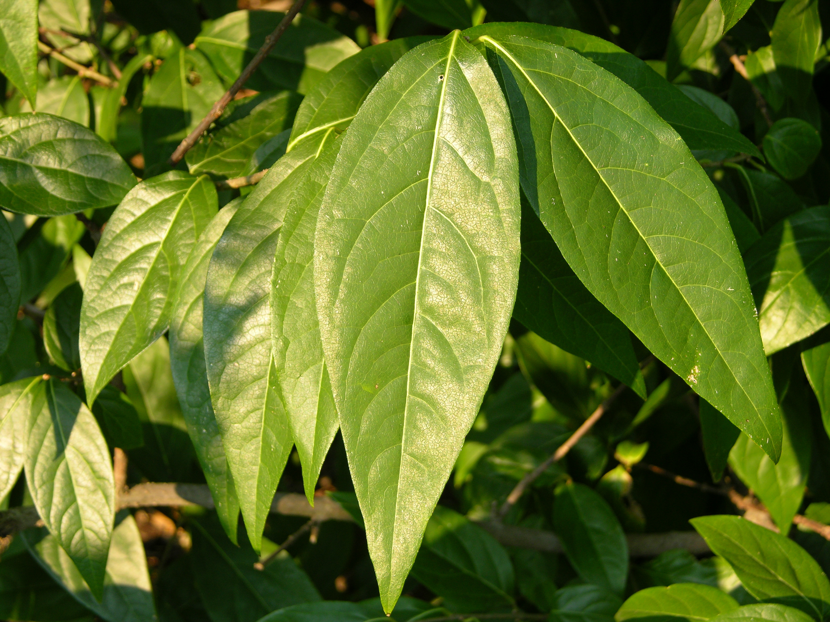 Photograph of the Wintersweeten (Chimonanthus praecox en ). Photo taken at the Tyler Arboretum where it was identified.